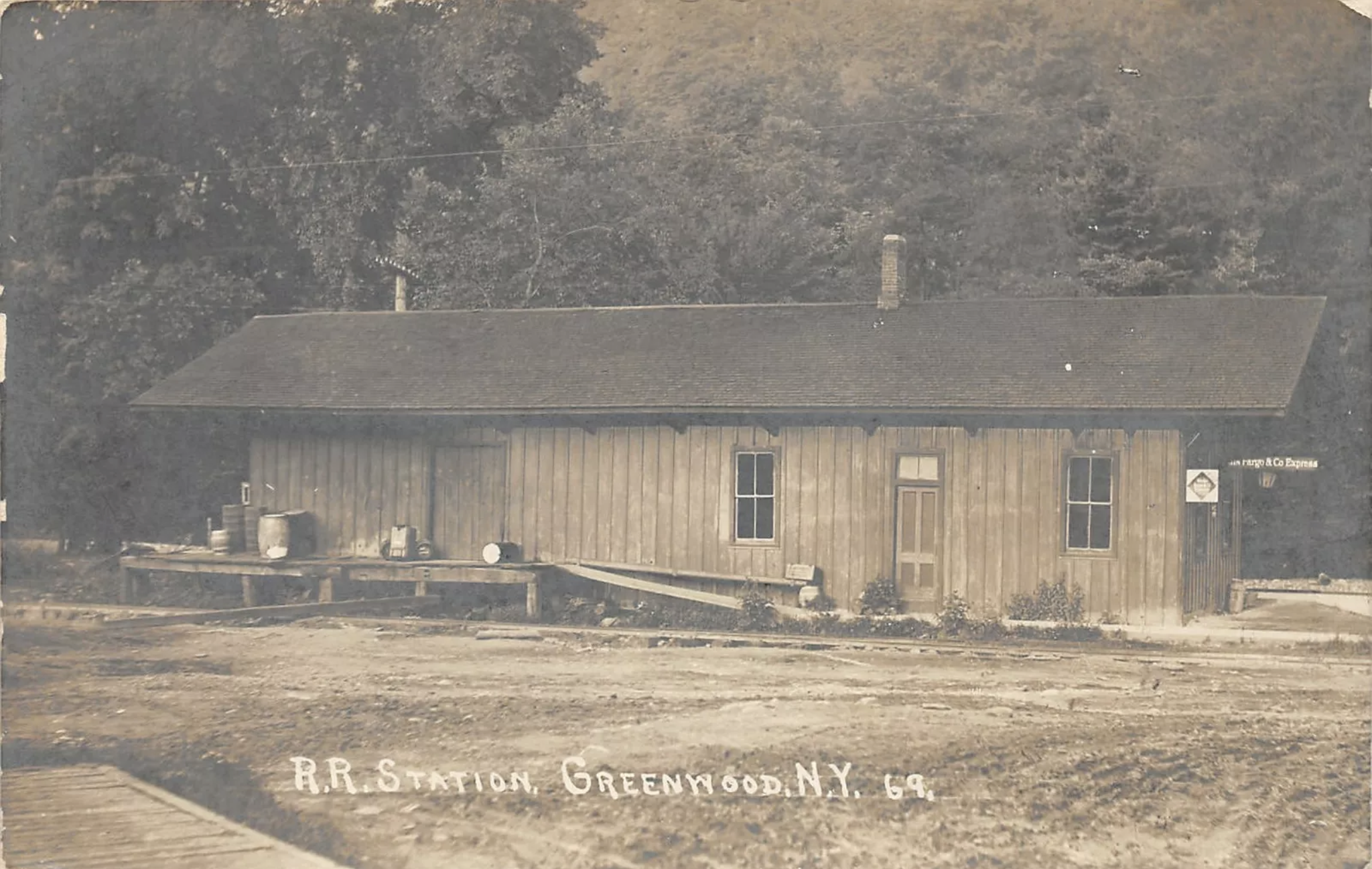 Postcard whose date of postmark could be 1921, 1923, 1924. Shows station of the New York & Pennsylvania Railroad in Greenwood, New York. Passenger service on the line ended in 1917. Note Wells Fargo sign.